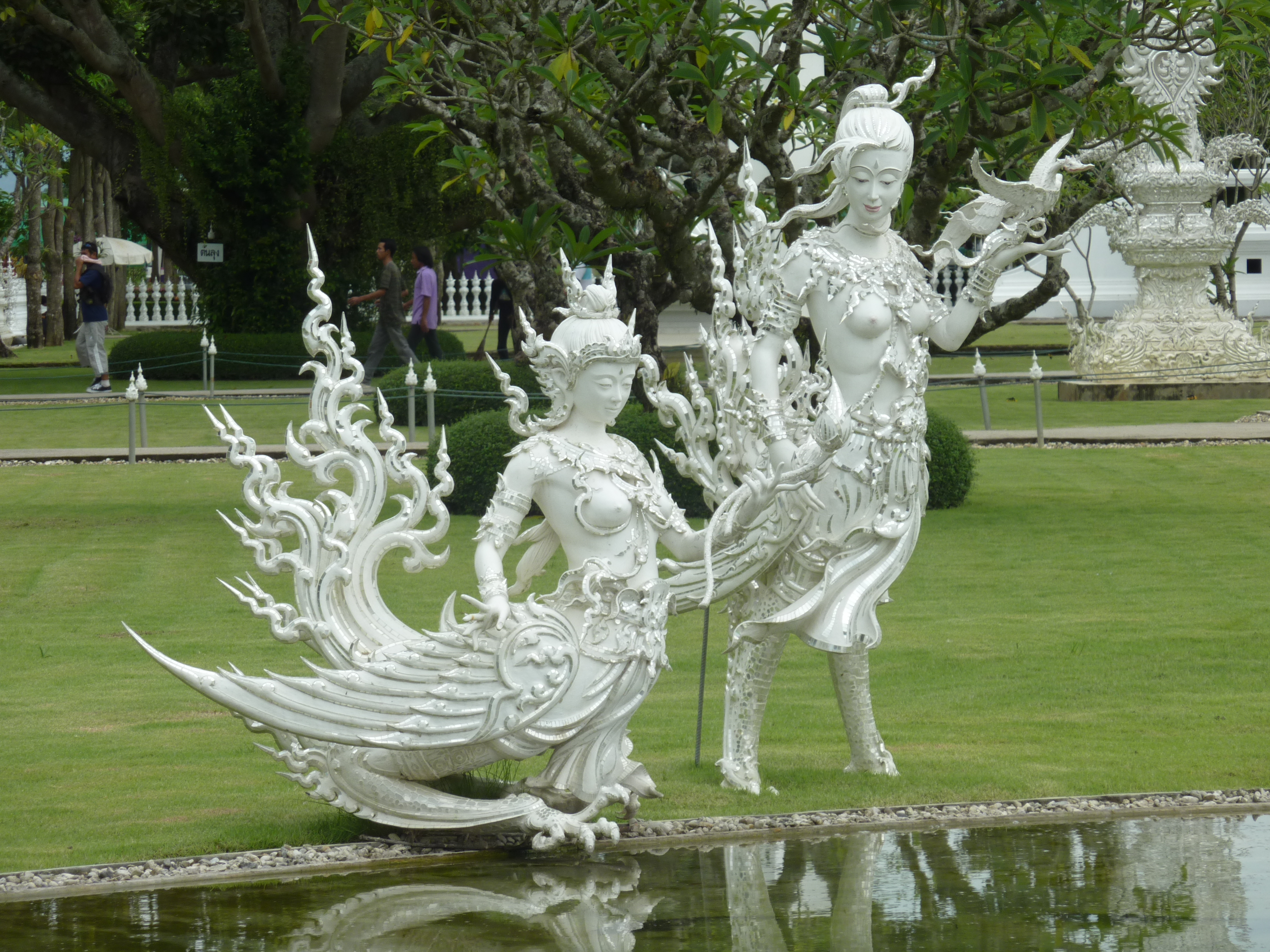 31 Kinnara, White Temple, Chiang Rai